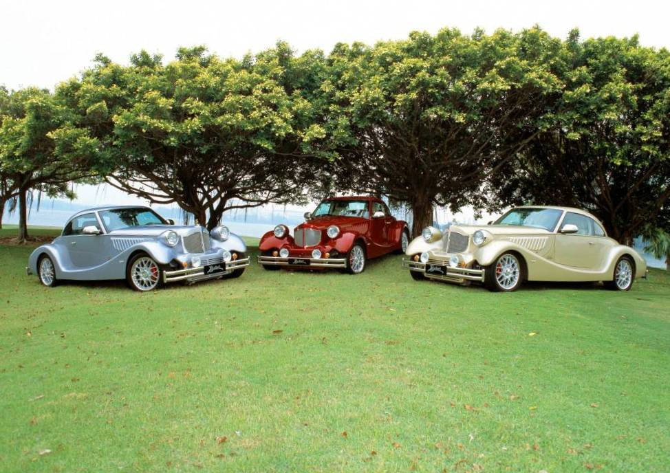 Bufori automobiles I am a representative of Bufori Motor Car Company and have permission to upload this photo